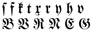 Sample letters set in “Walbaum-Fraktur”. The image shows: ſ f k t x r y h v B V R N E G